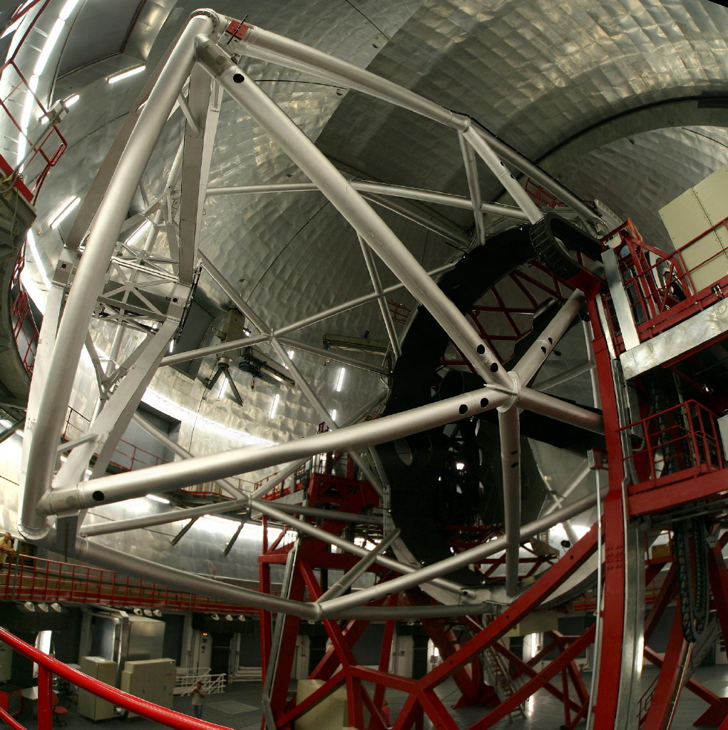 Gran Telescopio Canarias (GRANTECAN or GTC), a 10m optical Telescope at the Roque de los Muchachos Observatory, La Palma, Canary Islands. This image was stitched from two overlapping shots using PTgui.